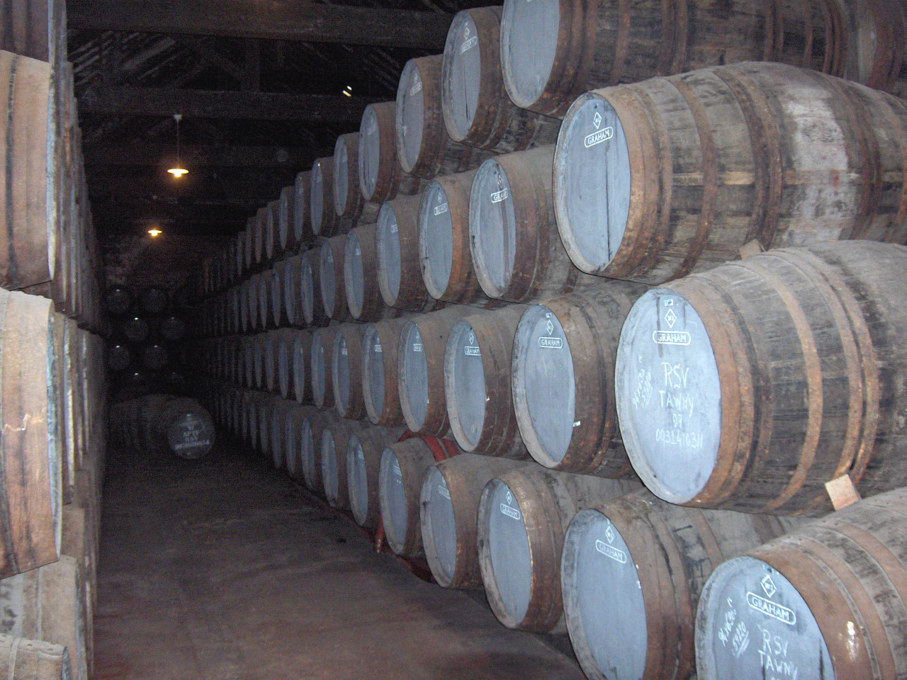 Wooden barrels (pipas) of 535 l port wine in the caves of the producer; Porto, Portugal